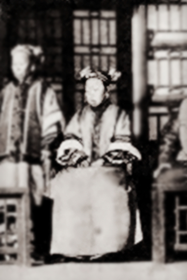 Princess Kurun Shouzhuang